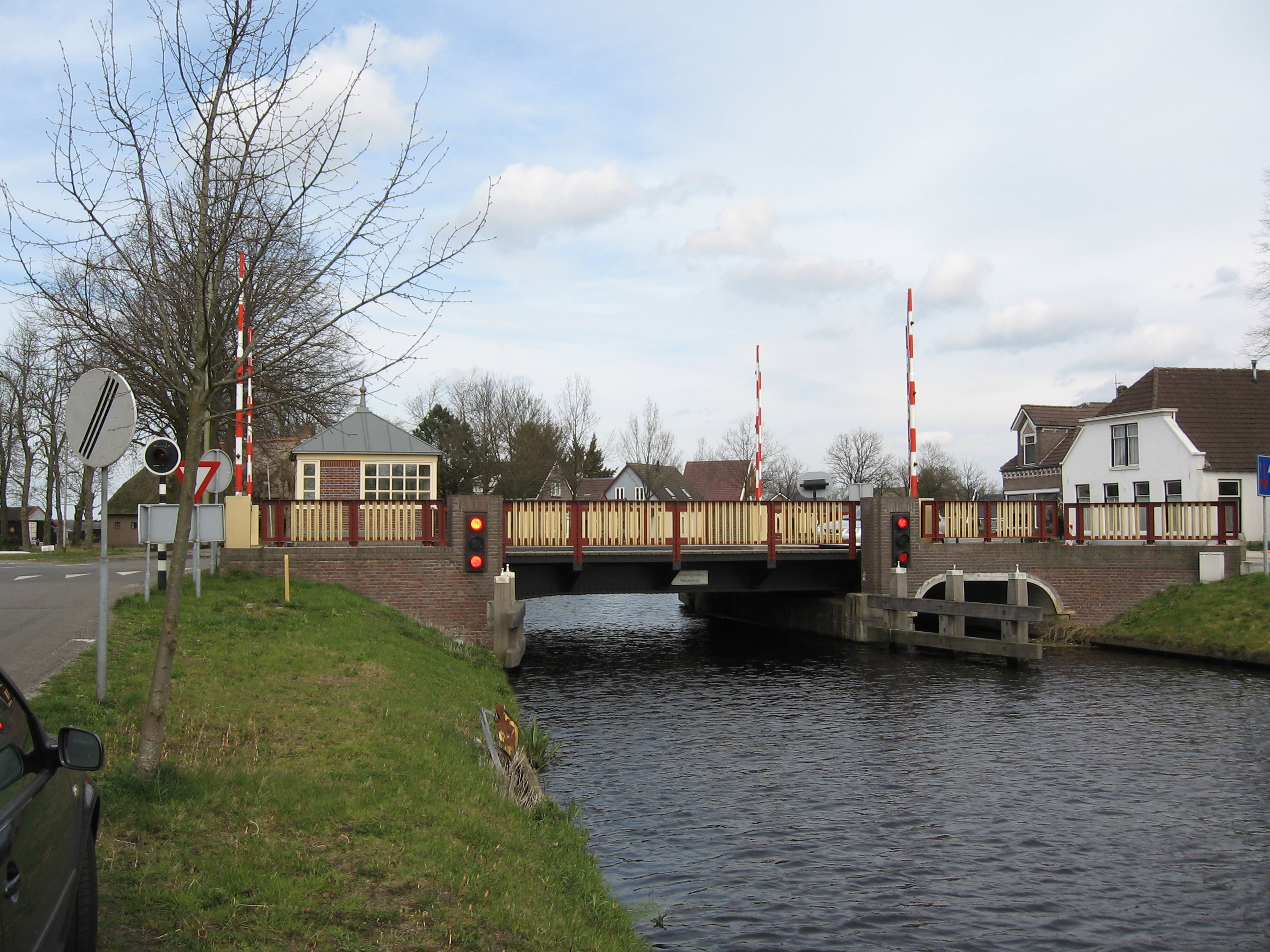 The Norgerbrug, one of the bridges across the Drentsche Hoofdvaart